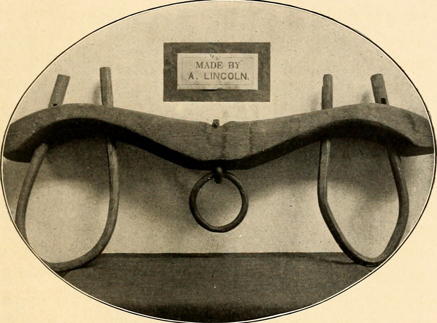 Title: Abraham Lincoln, the boy and the man Year: 1908 (1900s) Authors: Morgan, James, 1861-1955 Subjects: Lincoln, Abraham, 1809-1865 Presidents Publisher: New York : Grosset & Dunlap Text Appearing Before Image: d. Lincolns weight is given as214 pounds at that time, but the long reach of hismuscular arm was his strongest point, and hequickly seized Jack Armstrong by the throat andbeat the air with him, to the admiration of the crowd,including the Clarys Grove boys and even Jackhimself. The verdict of the battle was loyally acceptedby all, and the winner became the sworn friendthen and thenceforth of every man for miles around.His admirers never ceased to brag about the thingshe could do, and one of their favorite pastimes wasto arrange feats of strength for him to perform.It is a tradition that once he raised a barrel of whiskeyfrom the ground and lifted it until, standing erect,he could drink from the bung-hole, refusing, however,to swallow the liquor, for he always set before thecommunity in his own life a much-needed exampleof total abstinence. Another legend representshim as having lifted, by means of ropes and strapsfastened about his hips, a box of stones, weighingnearly 1000 pounds. 36 Text Appearing After Image: from the collection of H W. Fay, Esq., De Kalb, 111. A Yoke which is treasured as an Example of LincolnsCraftsmanship